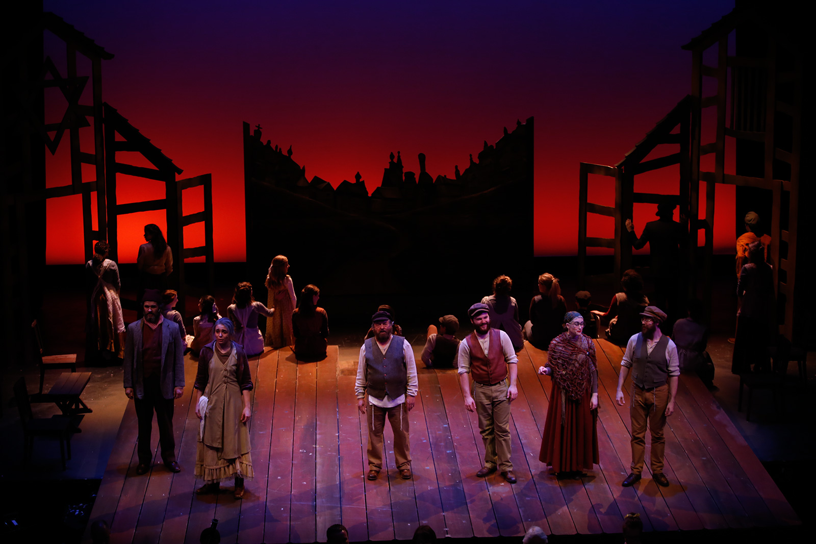 Fiddler On the Roof